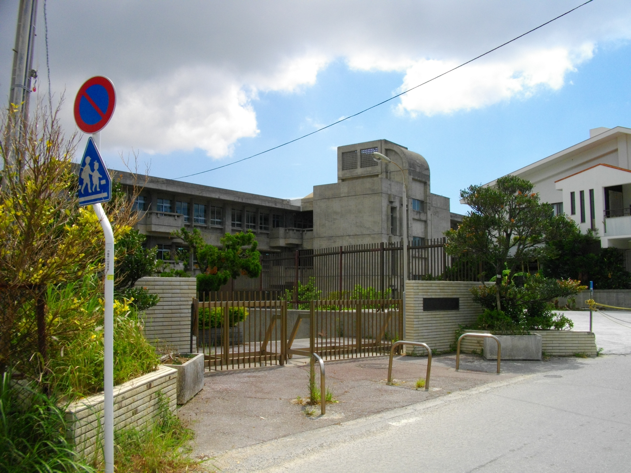 Kaiho High School